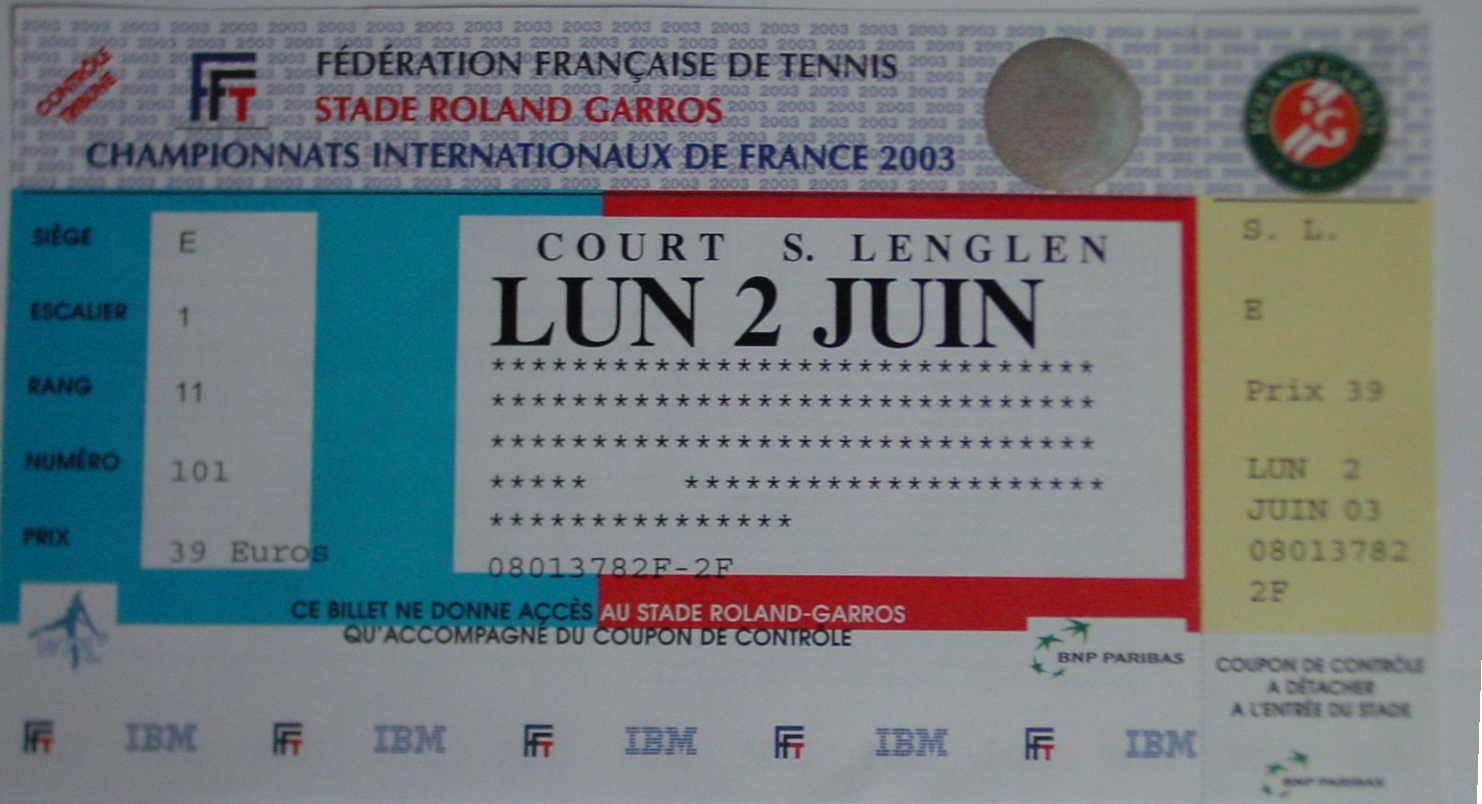 a ticket for the french open